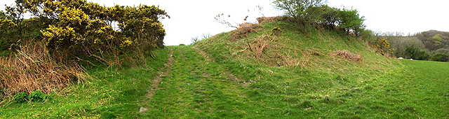 Walwyn's Castle. Part of the extensive earthworks of Walwyn's Castle just south of the church.